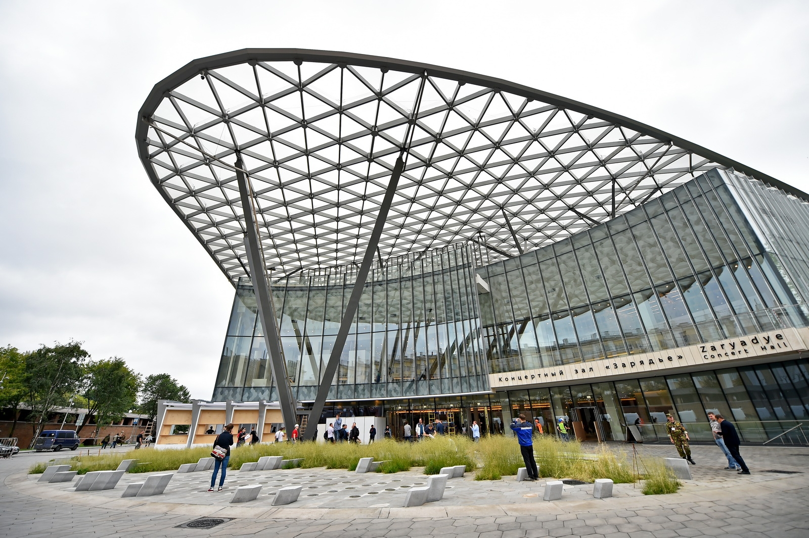 Zaryadye Concert Hall